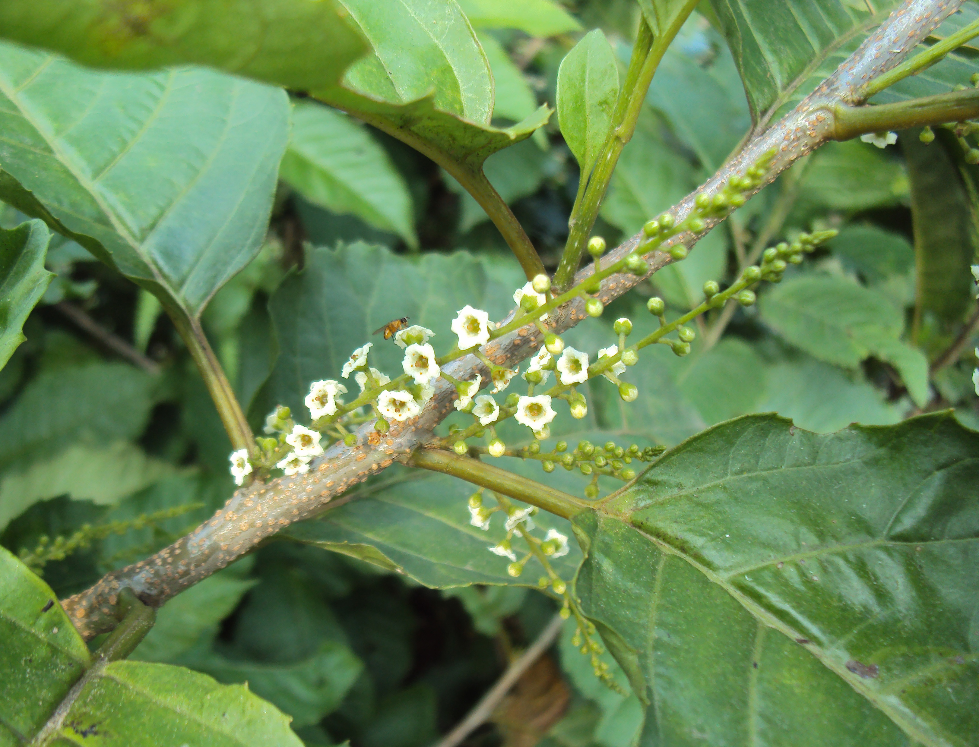 Maesa indica